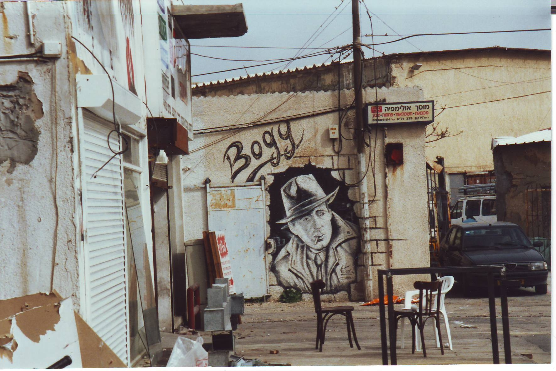 Hampri Borart on a wall of a garage in Tel Aviv